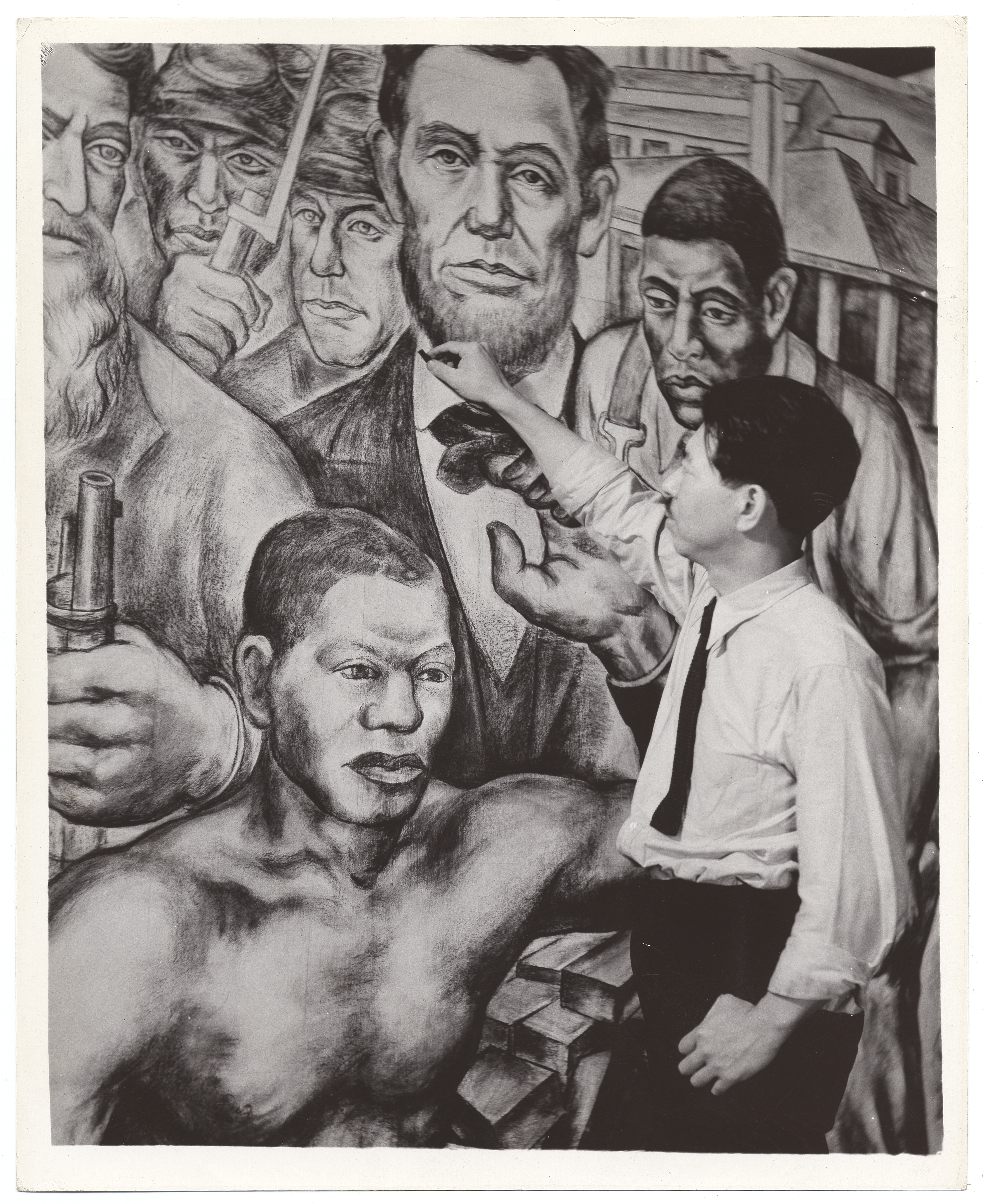 Eitaro Ishigaki finishing painting', ca. 1940 / unidentified photographer. Photographic print : 1 item : b&w ; 26 x 21 cm. Federal Art Project, Photographic Division collection, circa 1920-1965, bulk 1935-1942. Archives of American Art. Identification on verso (handwritten and stamped): Federal Art Project W.P.A; Photographic Division; 10 East 57th Street; New York city. Location: 170 E 121 St., Artist at mural; Negative No.: T 4.